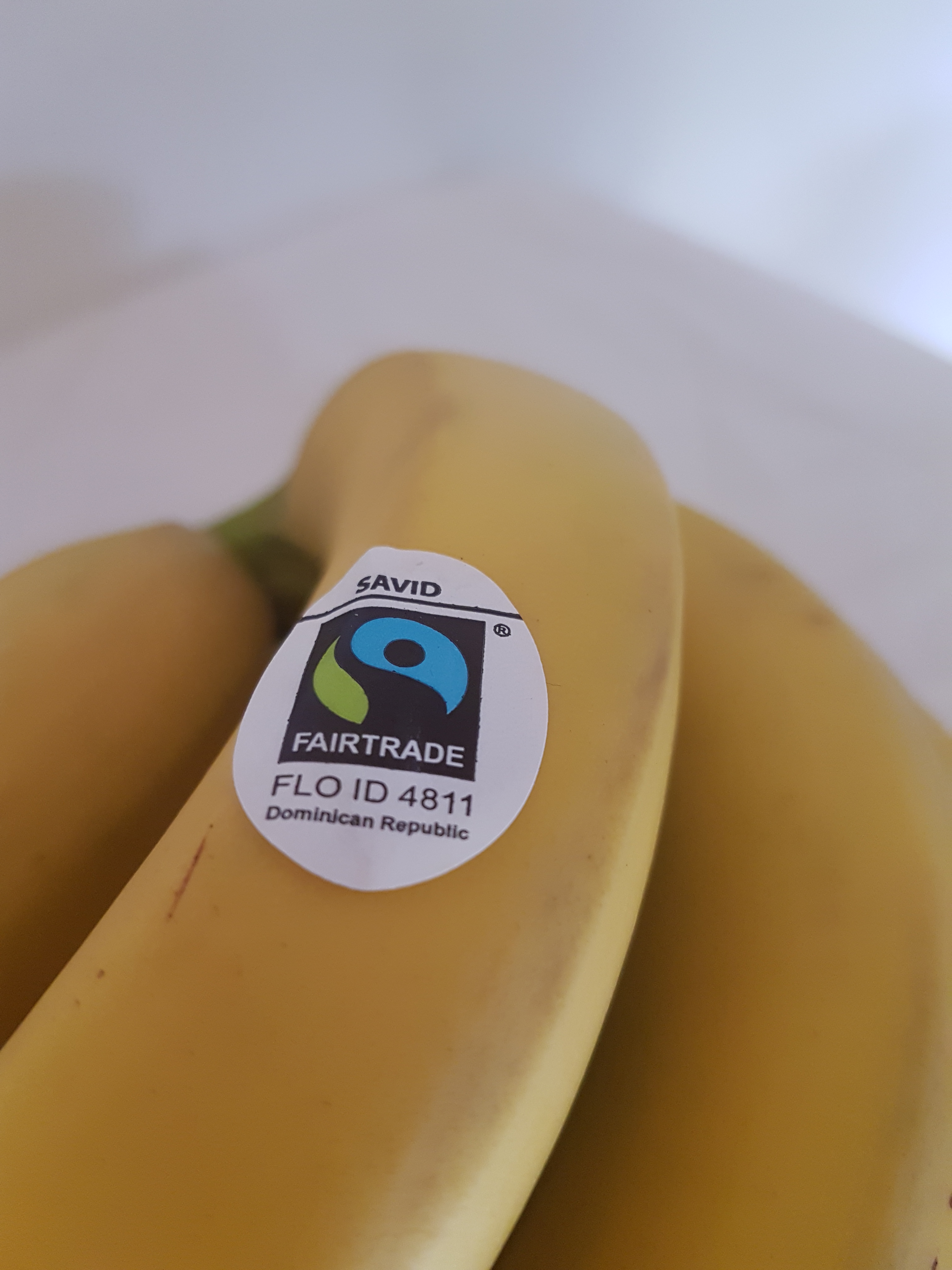 Fair-Banana